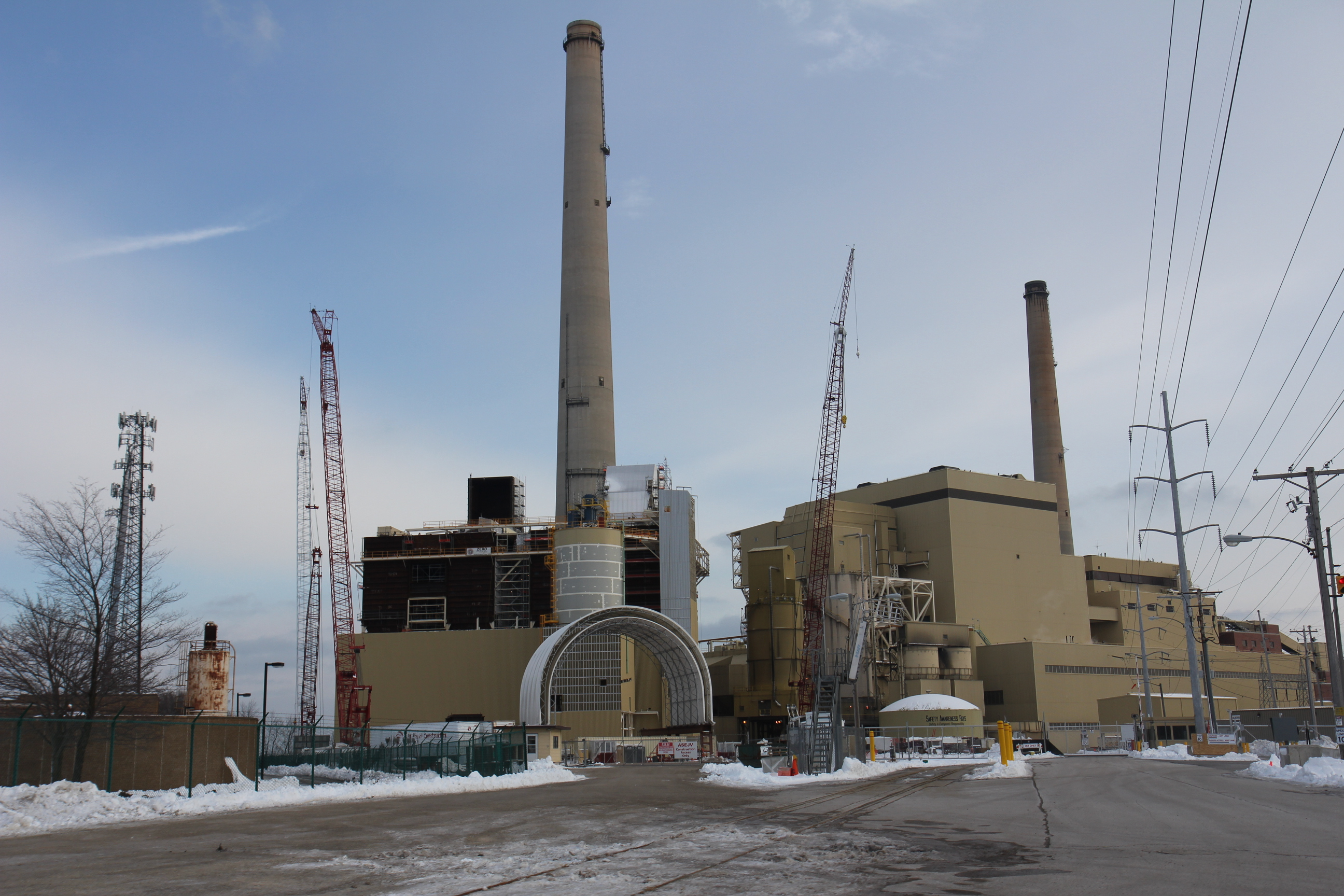 The Edgewater Generating Station in Sheboygan, Wisconsin during construction.